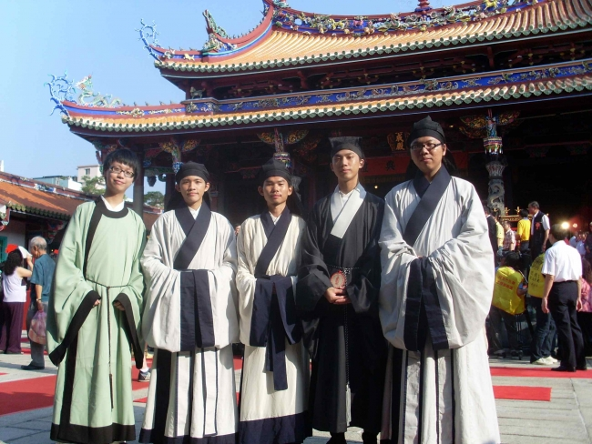 Panling Lanshan (盘领襕衫), Zhiduo (直裰) and Shenyi (深衣) - Men's Chinese traditional clothing (hanfu)